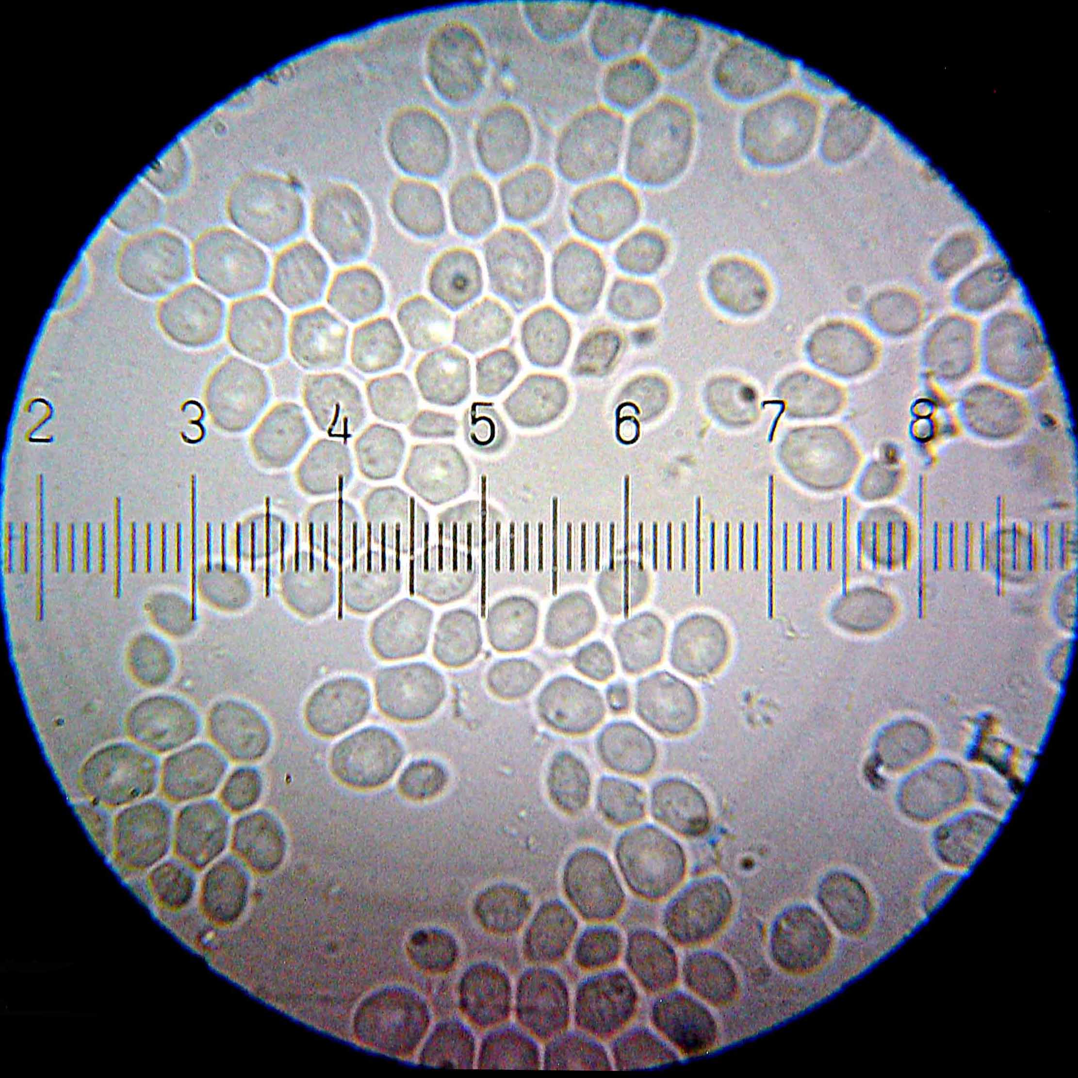 Saccharomyces cerevisiae — baker's yeast. 100× objective, 15× eyepiece; numbered ticks are 11 µM apart. Each pixel in the full-sized version of this image represents a 0.038 µM square.